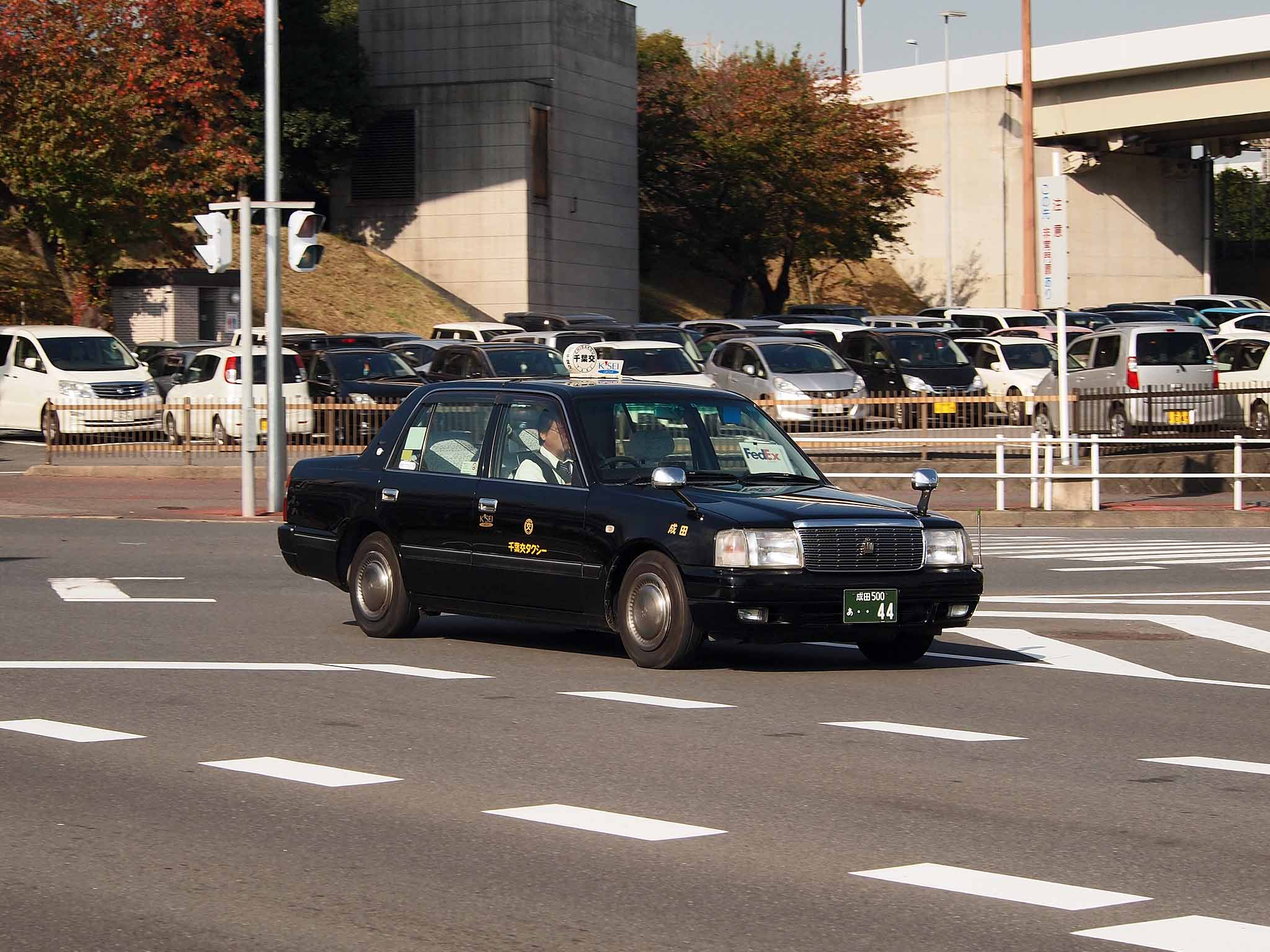 Fleet of Chibakou Taxi. Model: Toyota Crown Comfort License plate: CBN500A--44 Place: Narita International Airport, CHiba JApan